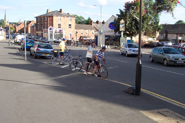 Stonehouse High Street. Taken from the Post Office looking south. You can see the junction of Regent Street and on the left a little way down the road is the spire of a church.